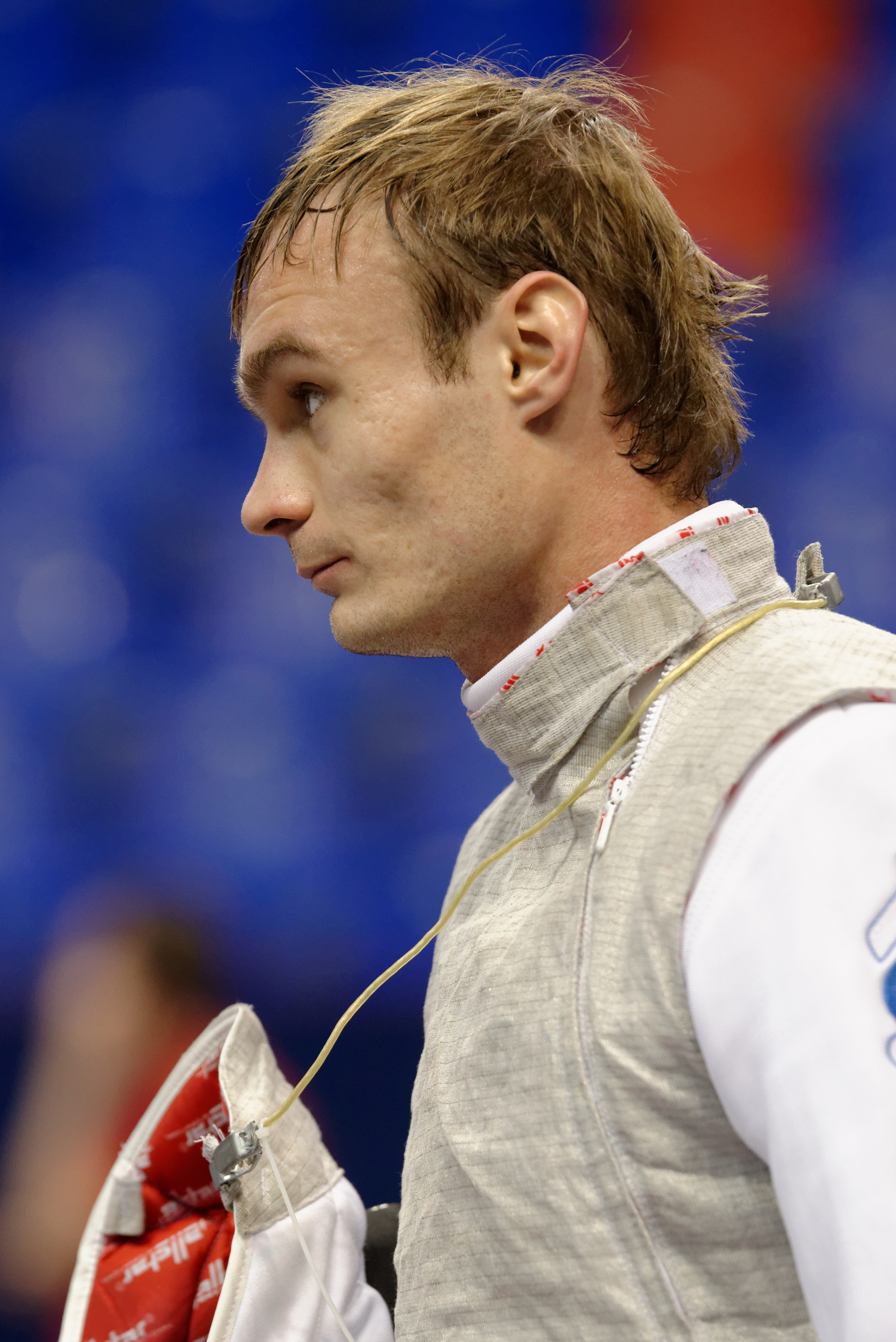 Russia's Aleksey Khovanskiy on qualifications day at the 2015 Challenge International de Paris, a men's foil World Cup competition.